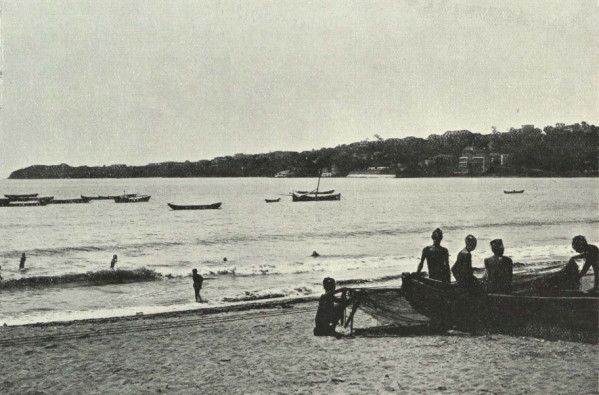 on One of the most picturesque views of Bombay at all seasons of the year.